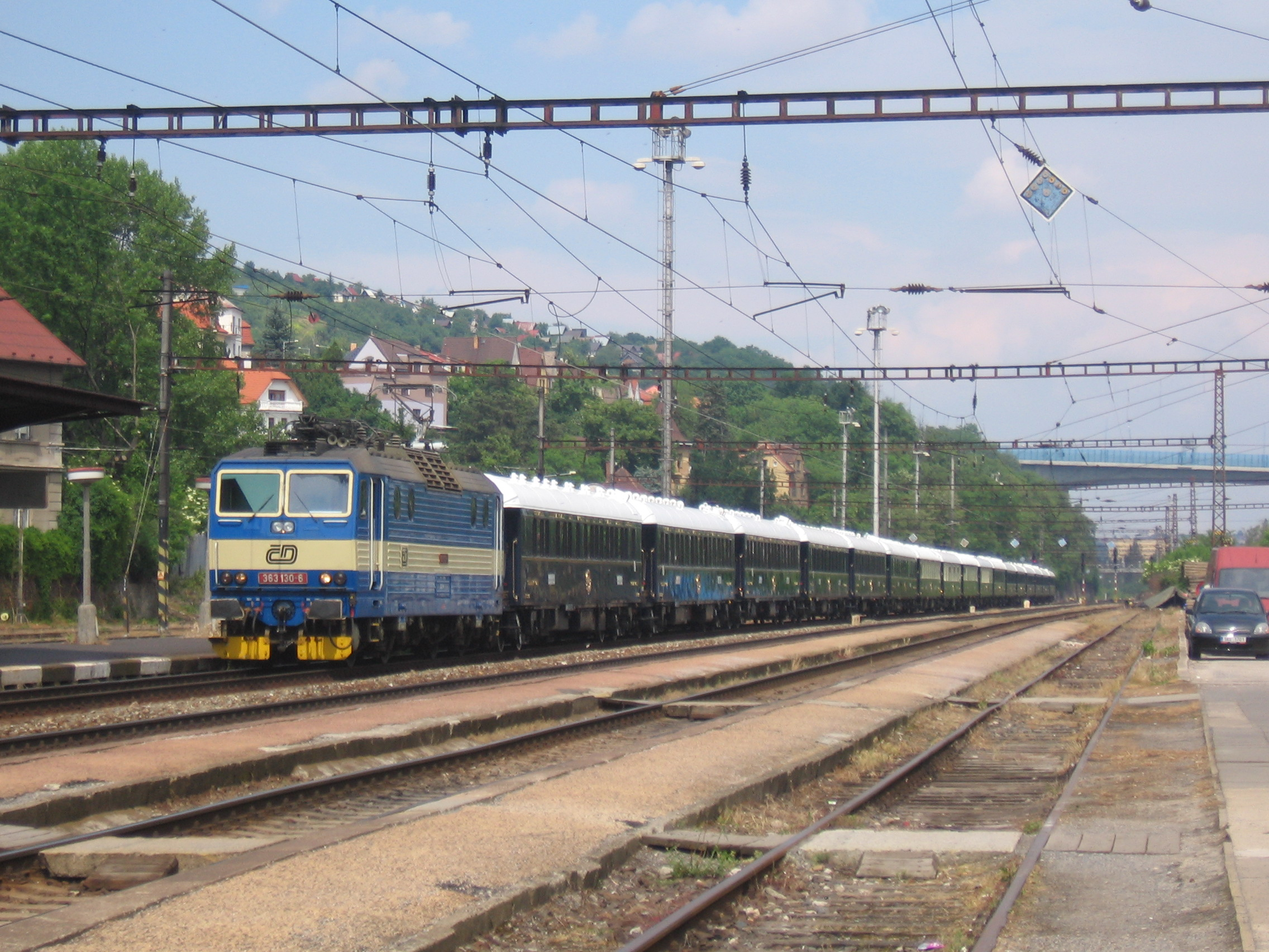 VSOE Orient Express going through the station Praha Radotín at speed cca 100 km/h.